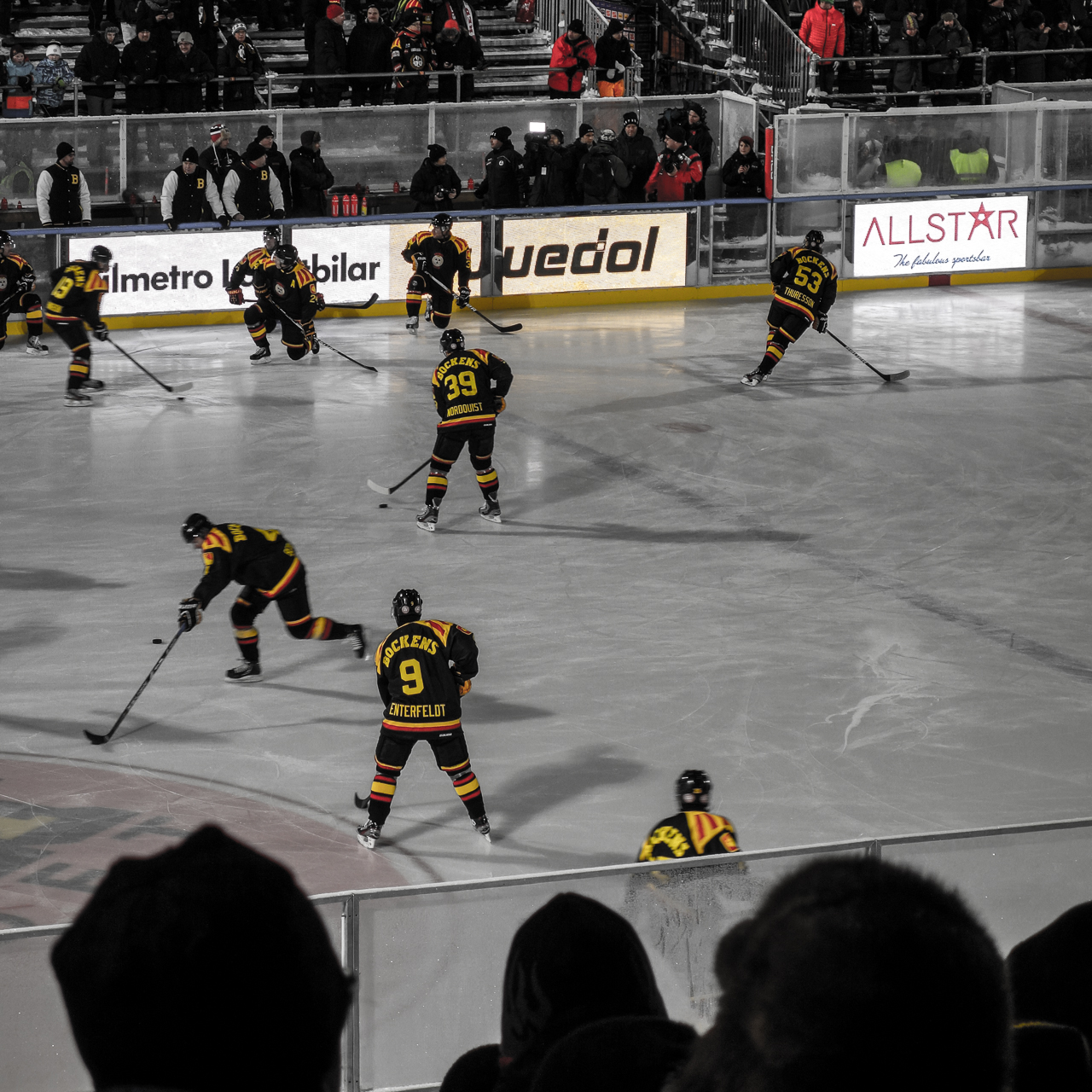 Players of Brynäs IF warming up for the Swedish Elite League ice hockey game against Timrå IK at Gävlebocken Arena in Gävle, Sweden. Brynäs IF won, 3-0.